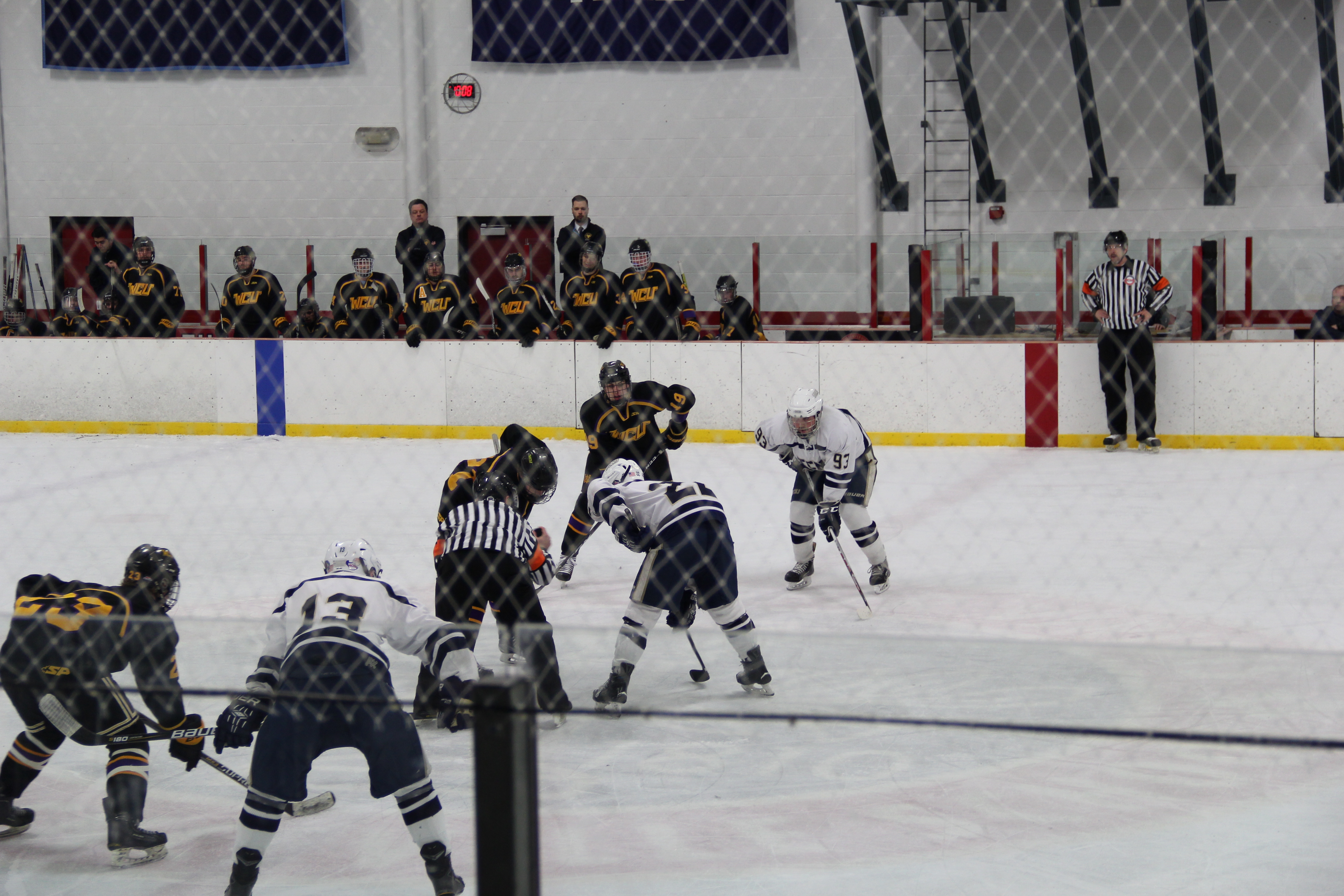 TCNJ vs West Chester University in the first round of the Colonial State Hockey Conference Playoffs